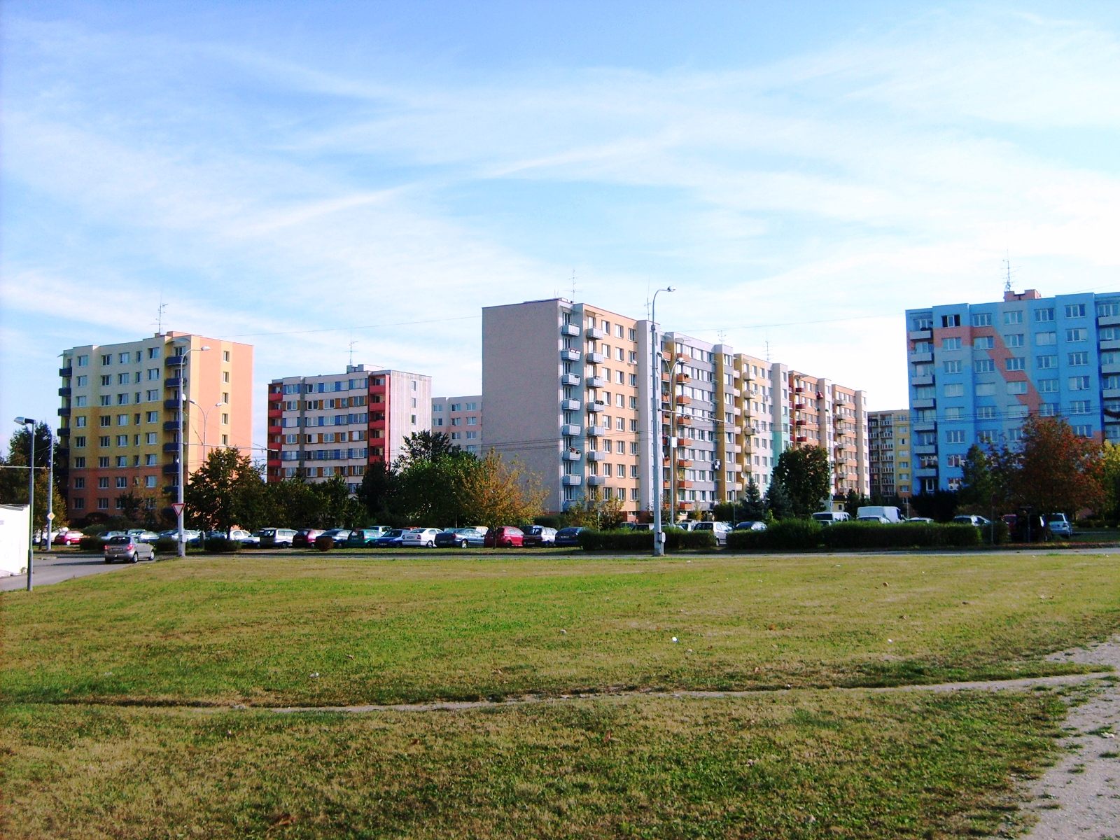 Vltava housing estate in Budweis, CZ